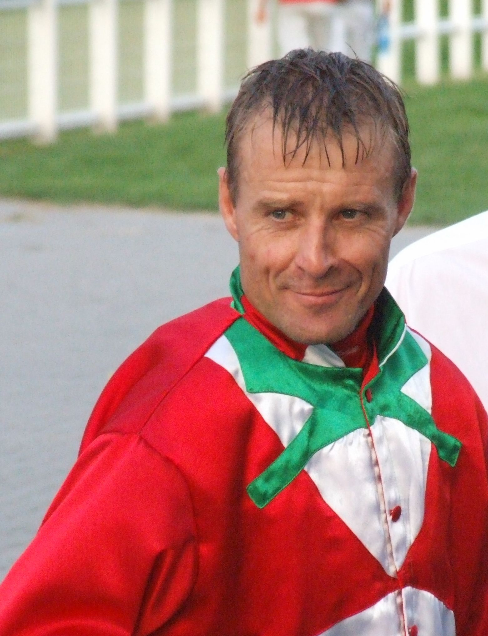 Overdose's jockey: Gary Hind.